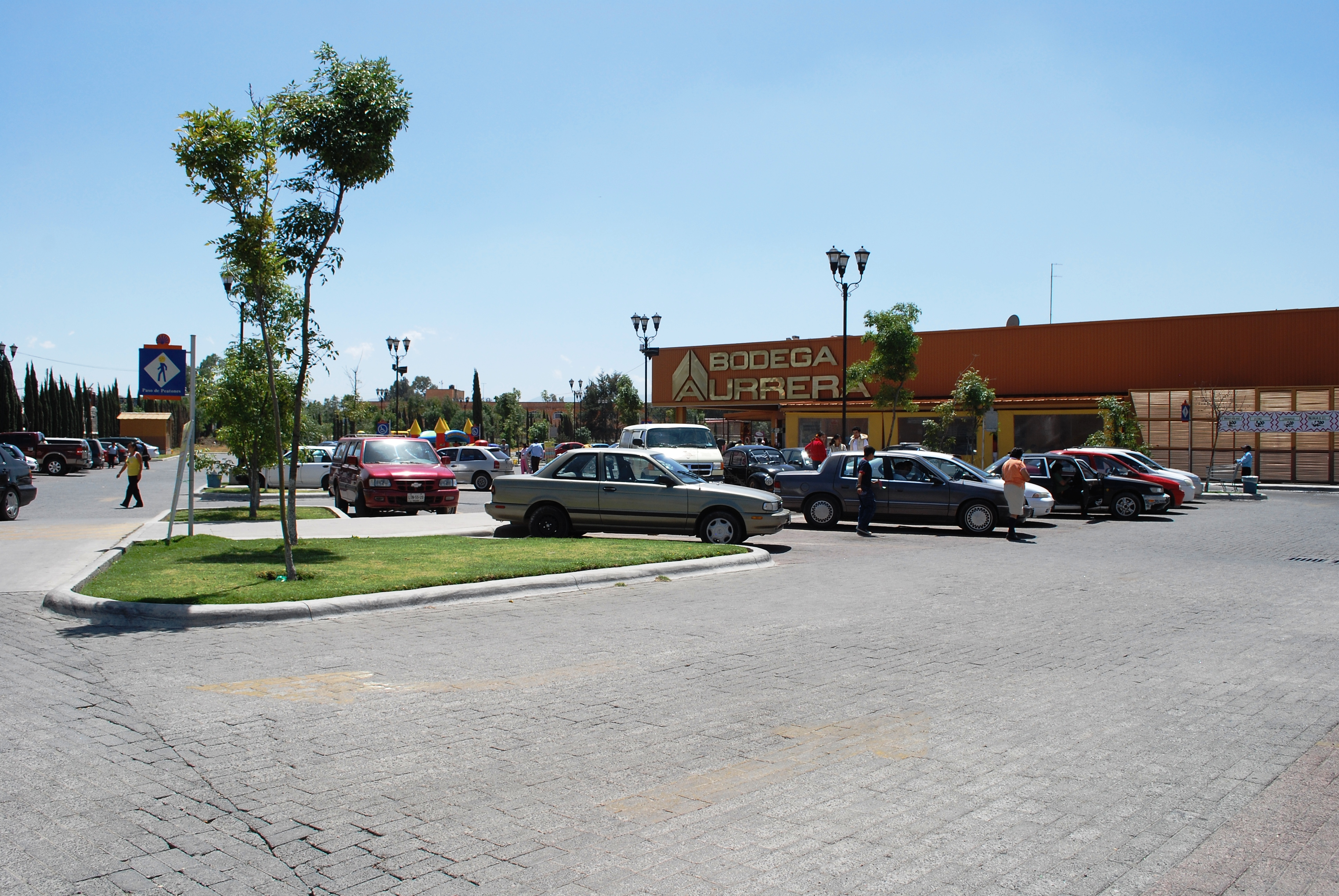 The controversial Aurrera Bodega (Wal Mart) supermarket in Teotihuacan, Mexico State